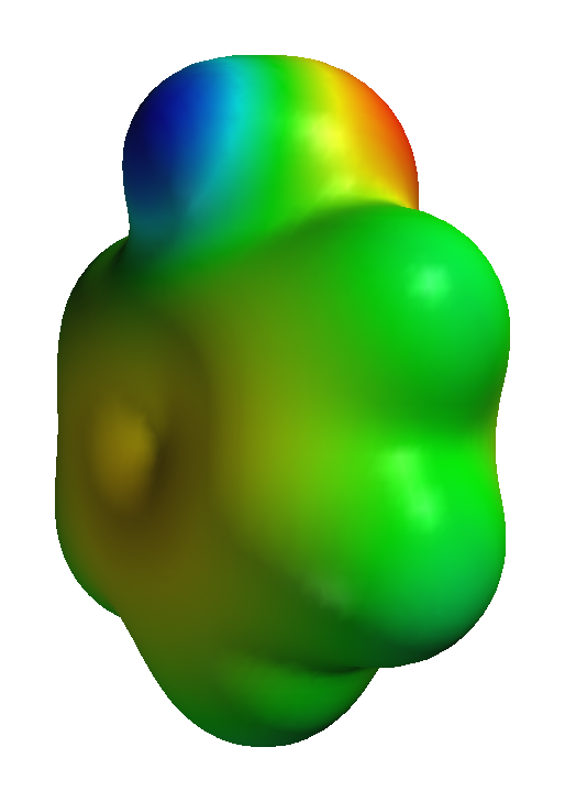 Electrical potential surface of the phenol molecule.